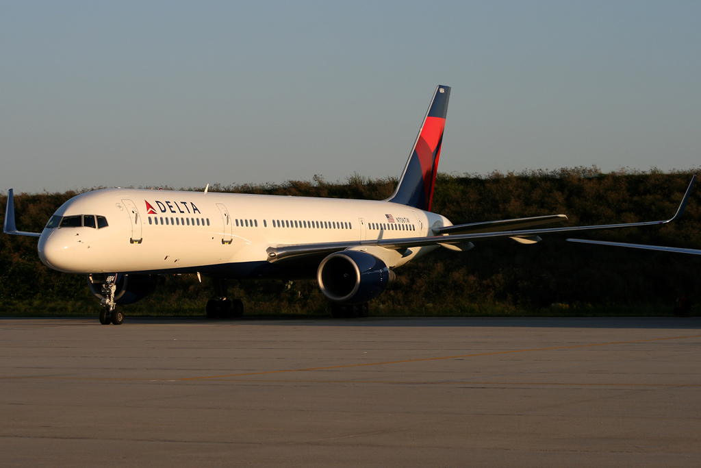 Delta Air Lines Boeing 757-200 (N706TW) with winglets.